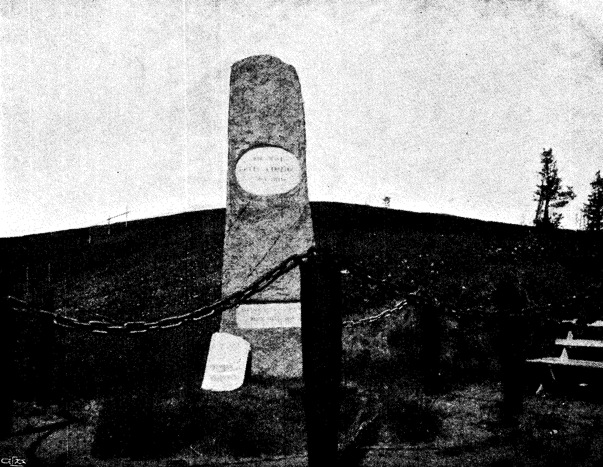 An old picture of a fallen soldiers' monument located in Ånn (Jämtland) in honour to the thousands Caroleans who died 1719 in attempt to reach Sweden from an unsuccessful campaign in Trøndelag, Norway. The inscription: (in Swedish) "Här hvila tappre karoliner, döde 1719. Svenske män och qvinnor reste stenen 1899"